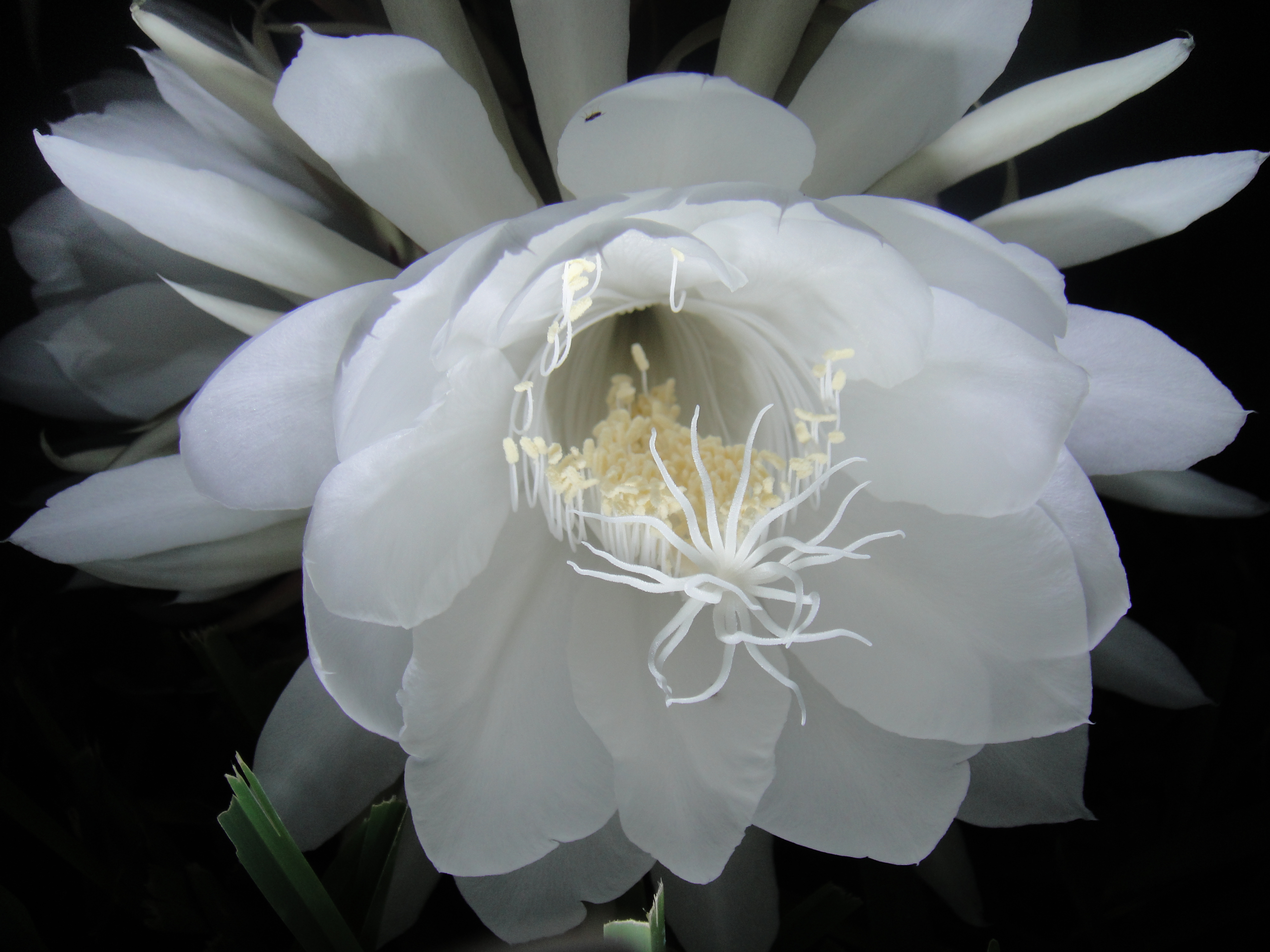 Taken in New Orleans at night(Epiphyllum oxypetalum)